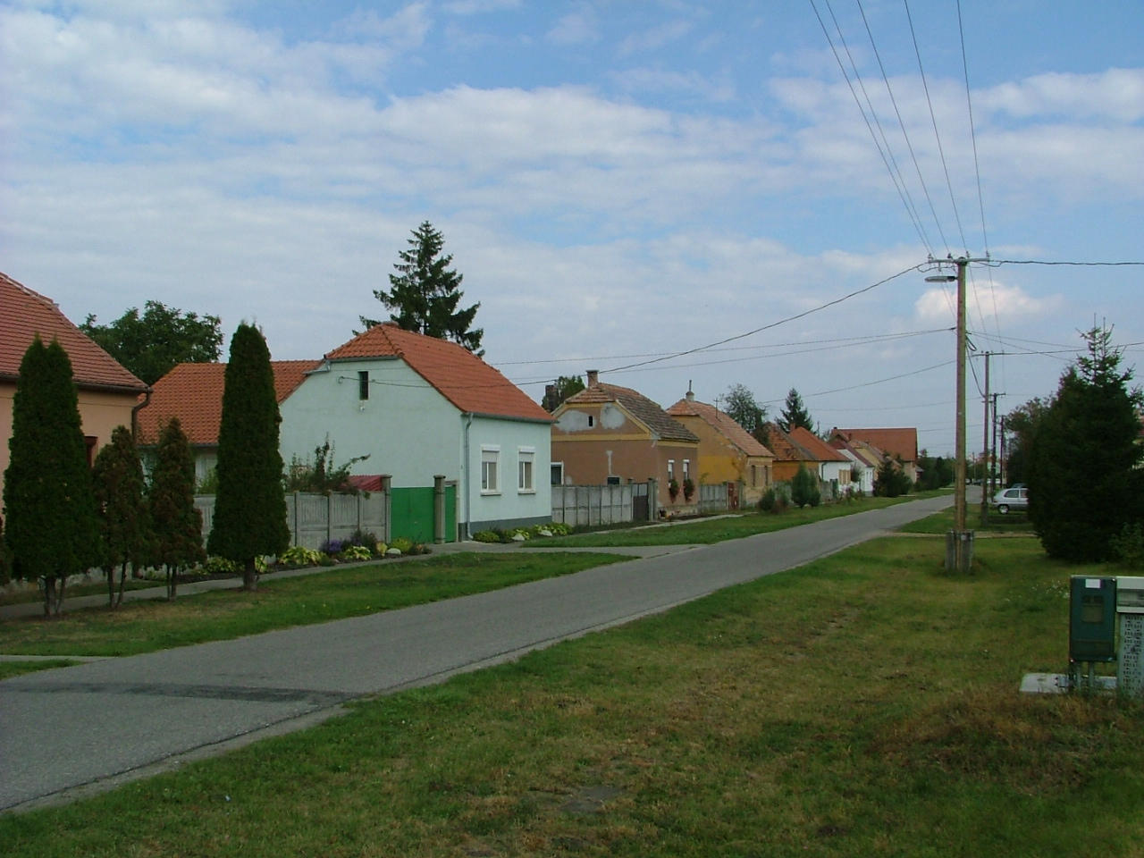 Nyárliget, part of Sarród